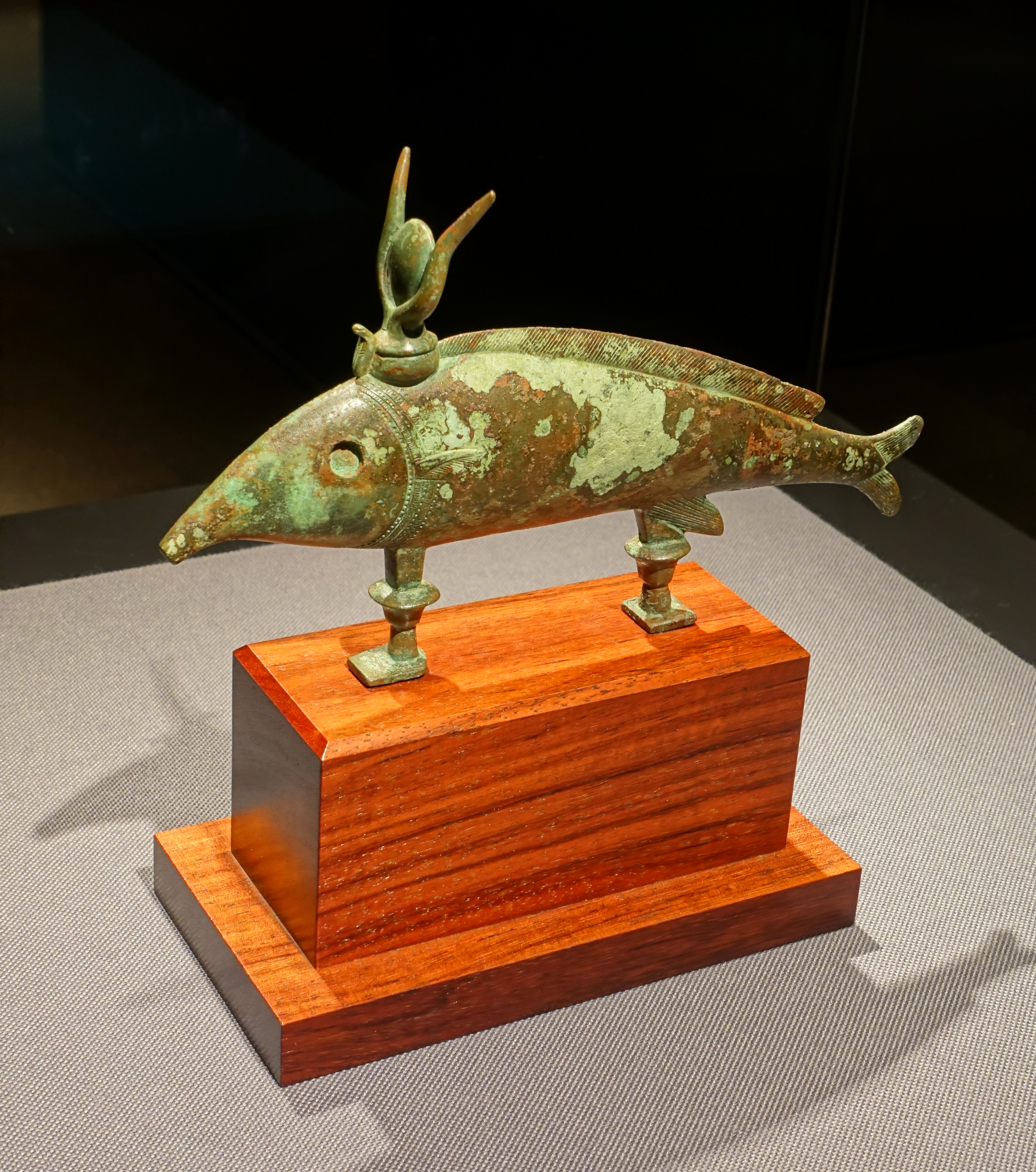 Exhibit in the Tokyo National Museum - Tokyo, Japan.